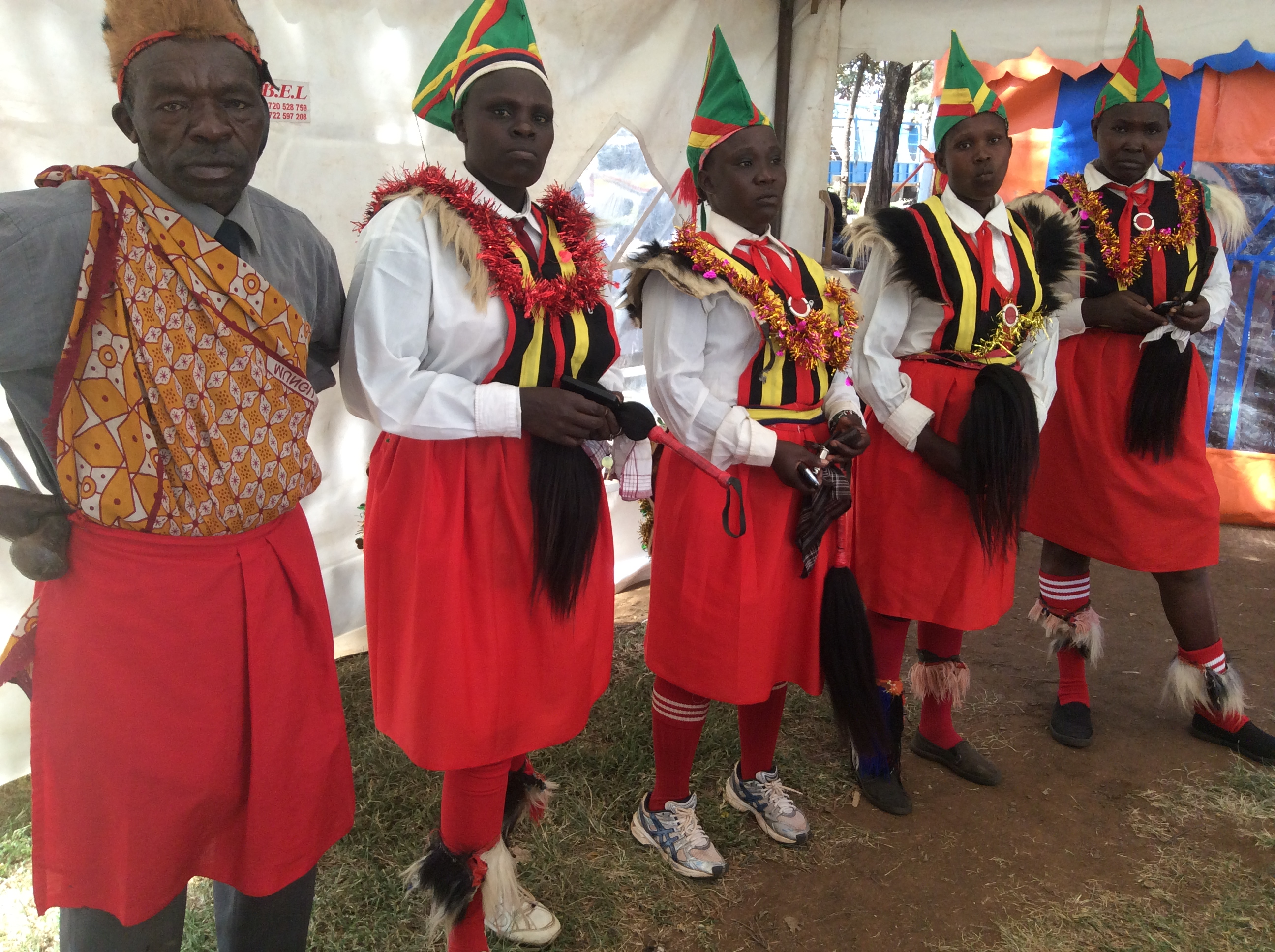 Chelele Kalenjin group taken during Eldoret Street Marketing organized by Empty Vessel Ministry Foundation at Eldoret, Kenya. This is an image of "African people at work" from Kenya